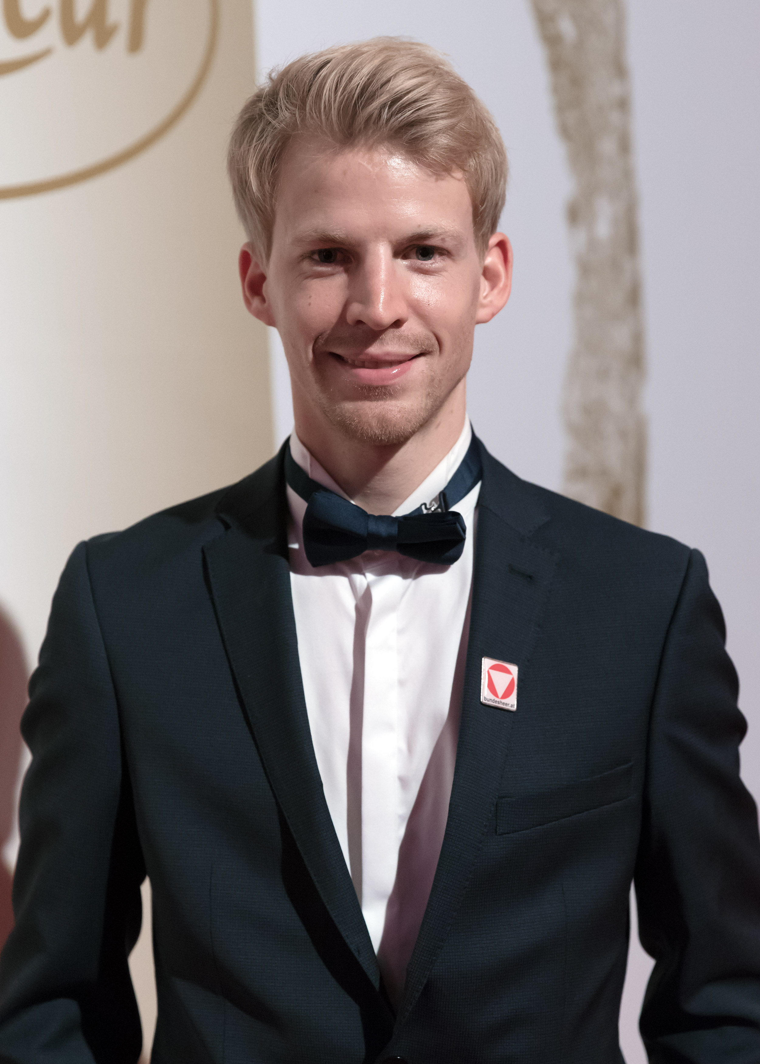 Michael Hayböck at the gala for the Austrian Sports Personalities of the Year 2017, at Marx Halle (Sankt Marx, Vienna, Austria).